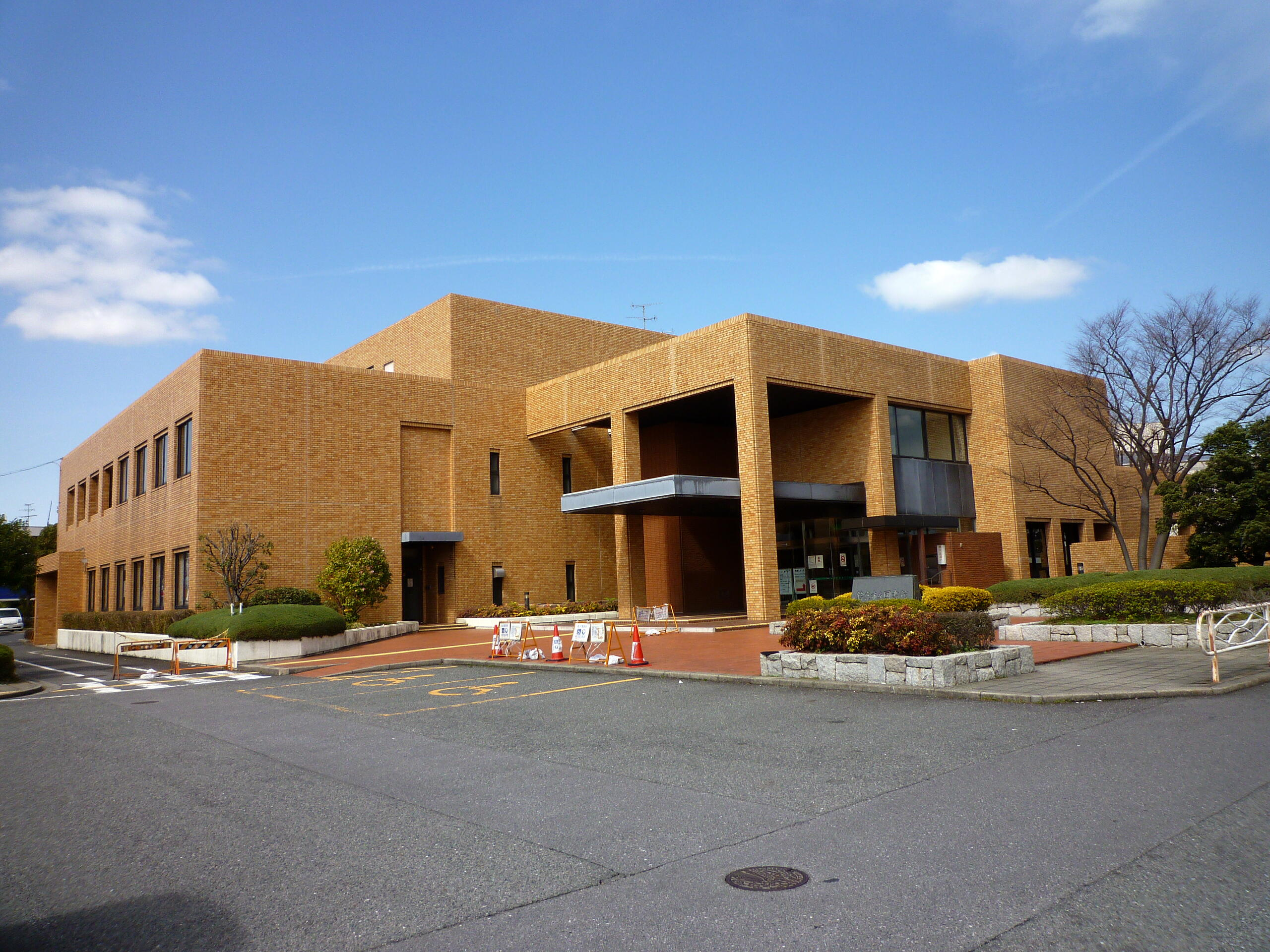 The "Suzuka City Library" in Iinojikechō, Suzuka City, Mie Prefecture, Japan.